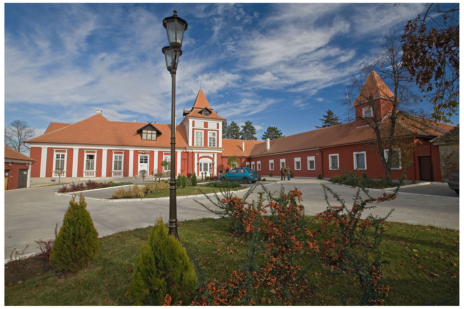 Kaštel Castle in Ečka